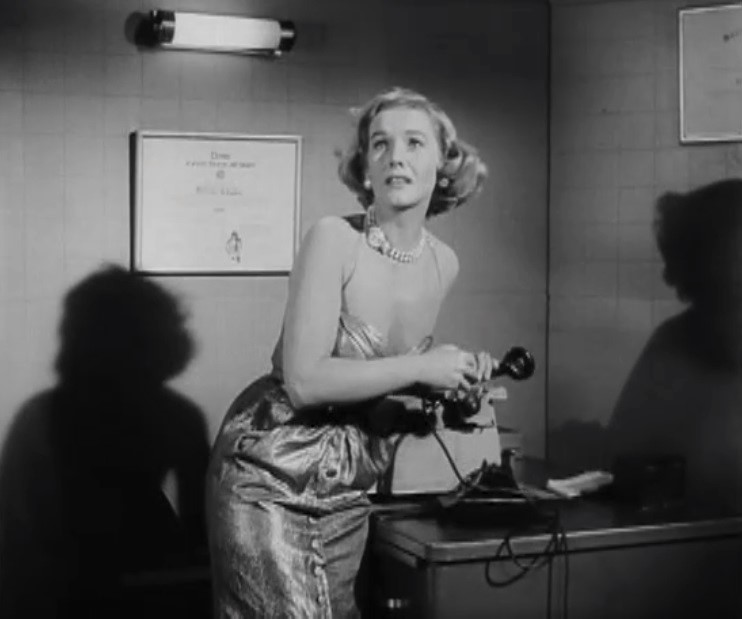 Patricia Cutts in The Tingler - trailer (cropped screenshot)